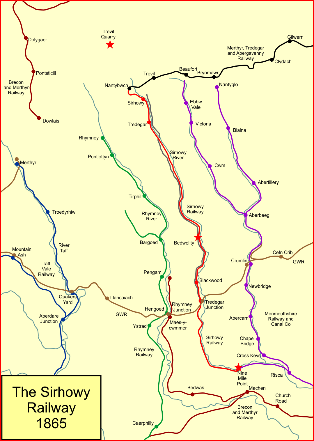 System map of the SIrhowy Railway, Wales, in 1865